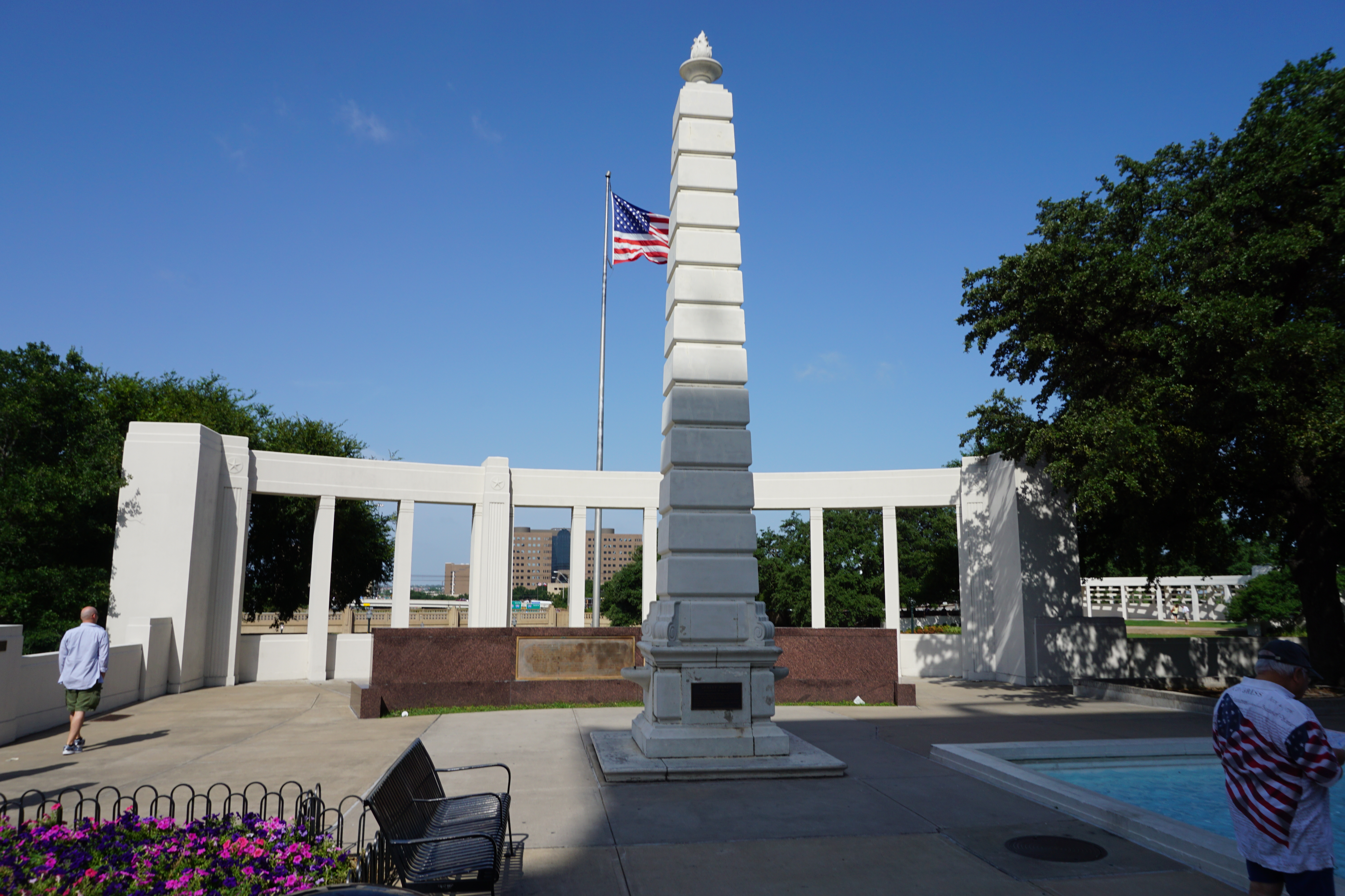 A memorial to John F. Kennedy at Dealey Plaza in Dallas, Texas (United States).